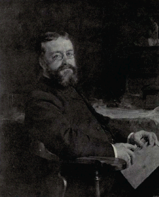 Dutch Art in the Nineteenth Century